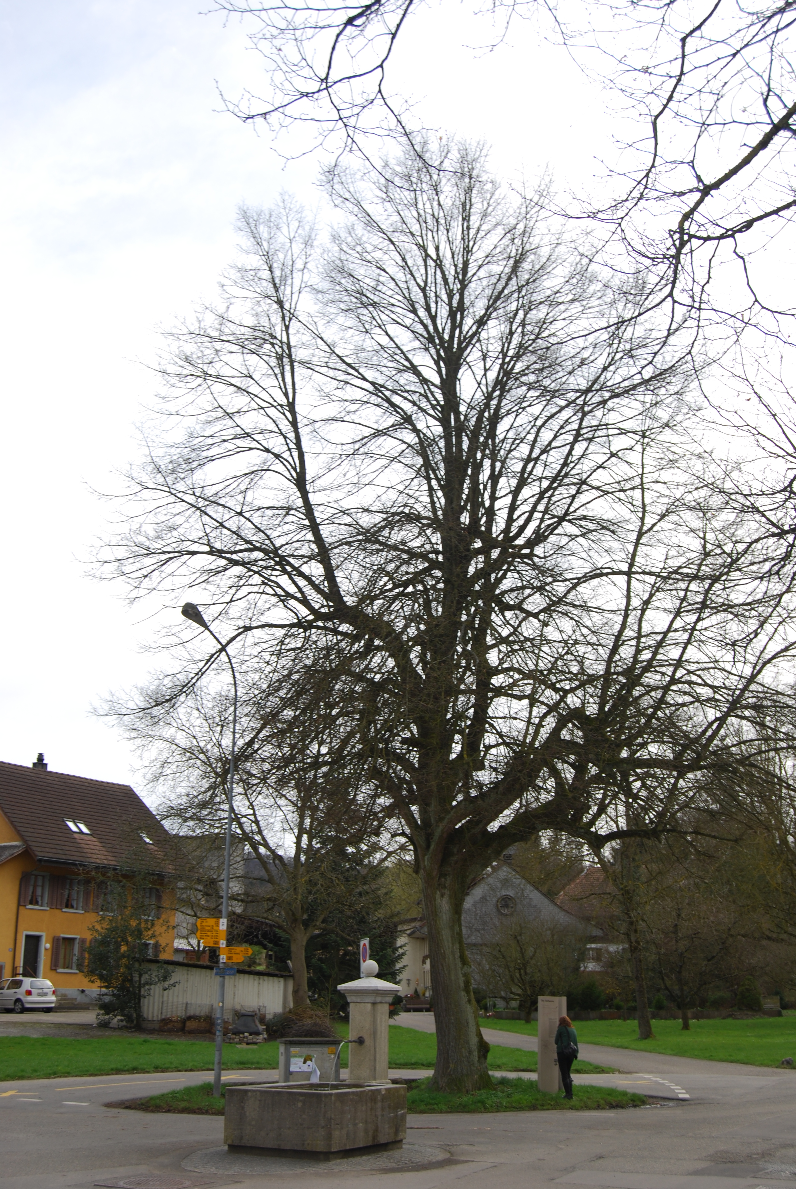 Village fountain at Scherz, canton of Aargau, SwitzerlandEsperanto: Vilaĝa puton en Scherz, Kantono Argovio, Svislando